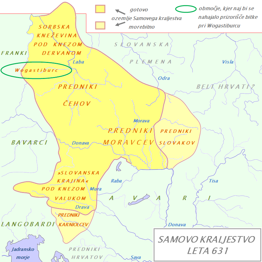 Tribal Kingdom of Samo. Map is based on the maps in: Korošec, Paola (1990): Alpski Slovani- Die Alpenslawen, Ljubljana, Znanstveni institut Filozofske fakultete, unnamed map on the page 18; Šavli, Jožko (1995): Sovenija: Podoba evropskega naroda, Bilje, založba Humar, map Samovo kraljestvo on the page 19; Barford, Paul M. (2001): The Early Slavs, Cornell University Press, map on the page 356, named Geography of the Slav settlement of Polabia- concerning the location of Sorbs east of Saale; map IV on page 397 for Sorbian culture, Devinska-Nova ves culture and Avarian state. It is also based on descriptions in: Štih, Peter (2001): Ozemlje Slovenije v zgodnjem srednjem veku: osnovne poteze zgodovinskega razvoja od začetka 6. do konca 9. stoletja, Ljubljana, Filozofska fakulteta; page 30- concerning the relationsship between king Samo and the ancestros of Slovenians; Korošec, Paola (1990): Alpski Slovani- Die Alpenslawen, Ljubljana, Znanstveni institut Filozofske fakultete, page 17 – concerning the Sorbs and their duke Dervan. For eastern and southern extant of tribal kingdom: known territories are shown by the scheme of franco-slavic border and information about the conflicts with Avars is imlemented. The inclusion of Bohemian basin is followed. Contacts with Avars are reached through the territory of Moravians anf Eastern Alps. The territories further east and south, which are in proximity of Avars, could be parts of tribal kingdom, too.